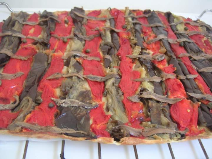 Coca de recapte